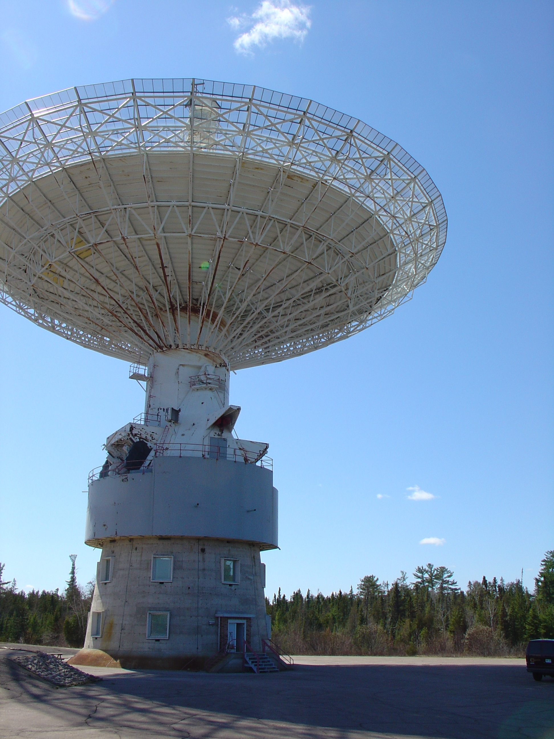 46 m Algonquin Radio Telescope in zenith pointing configuration.